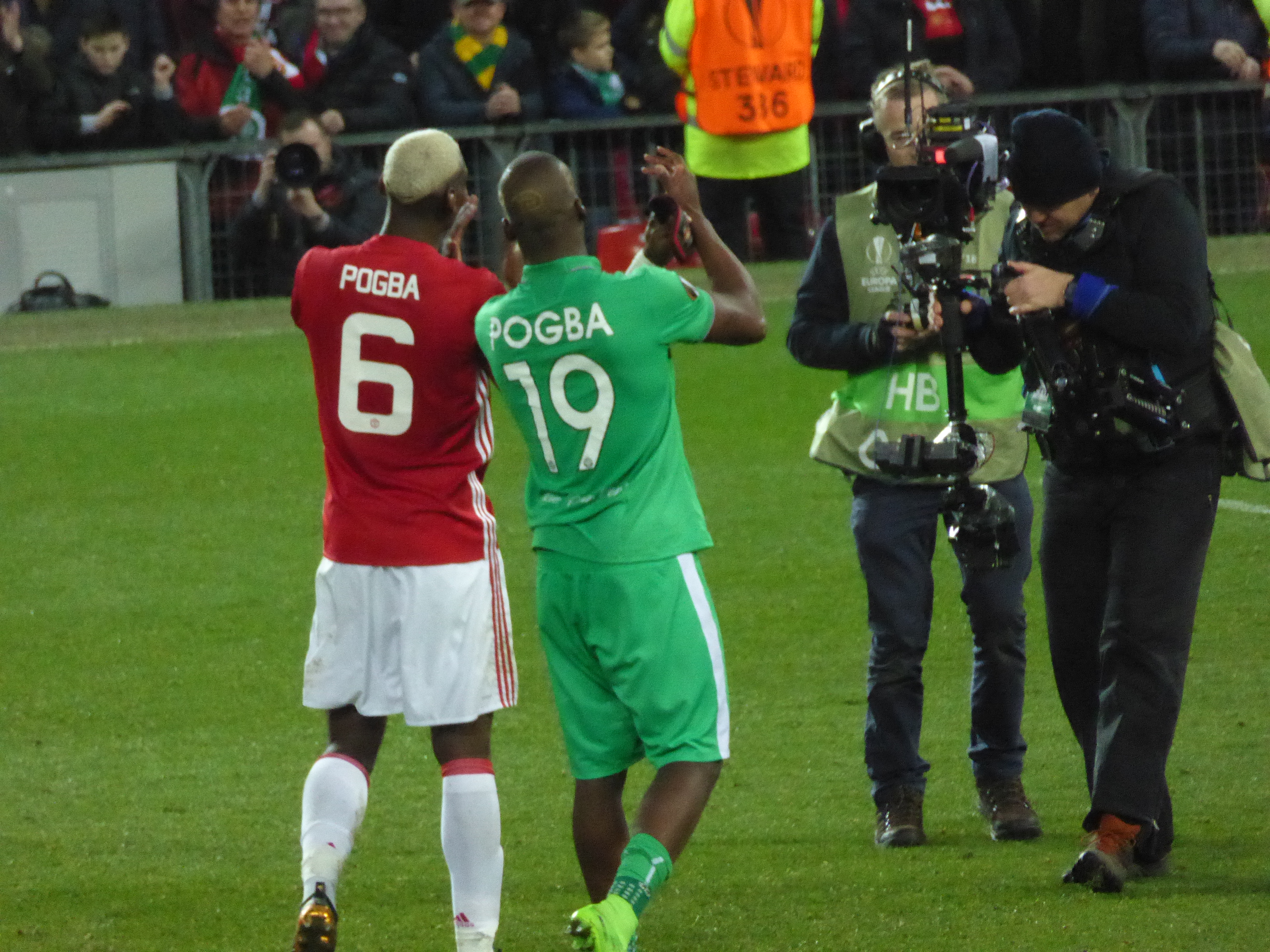 Manchester United v AS Saint-Étienne (3-0), UEFA Europa League, Old Trafford, Manchester, 16 February 2017